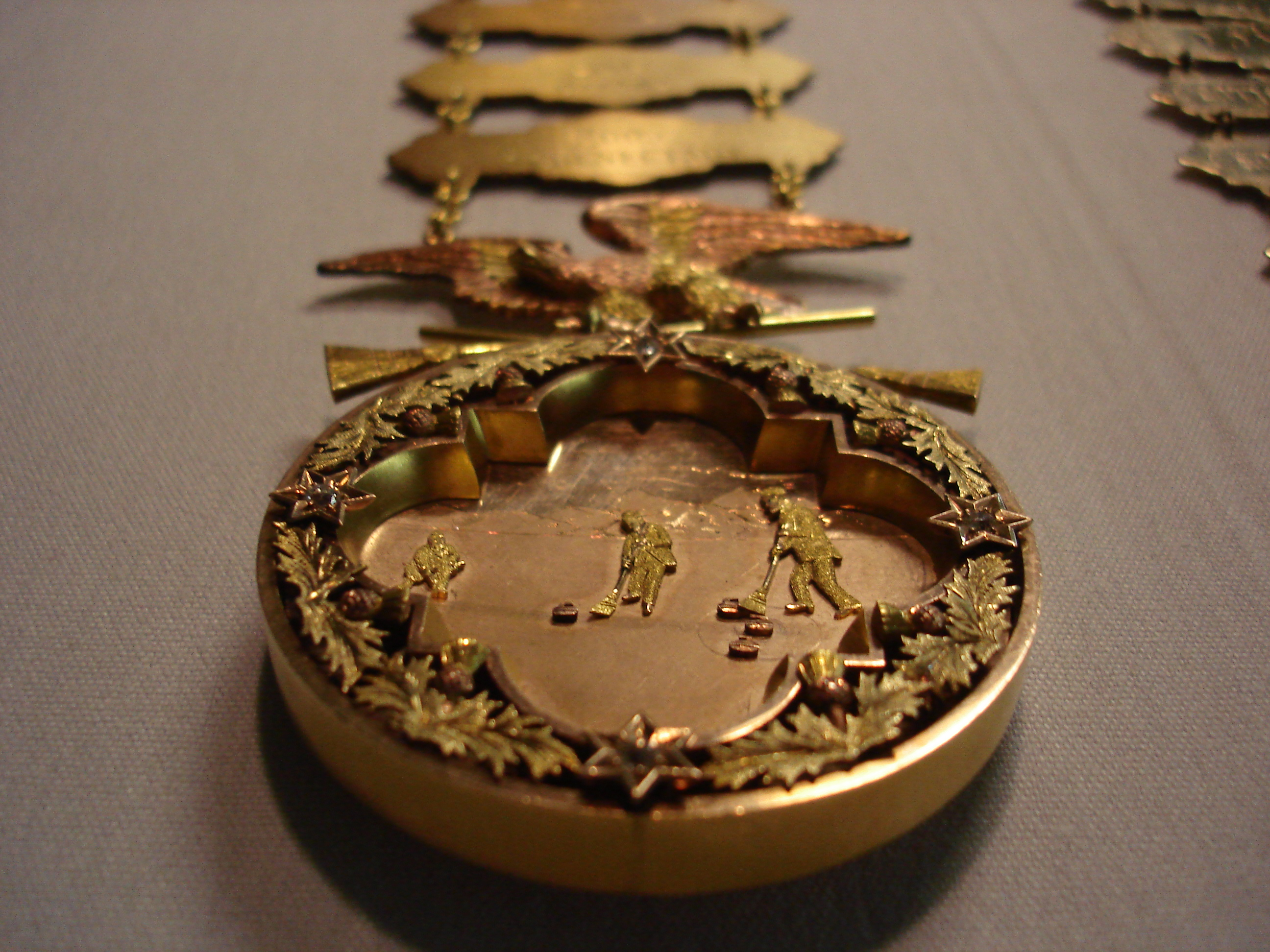 Mitchell Medal Photo by: rubyk